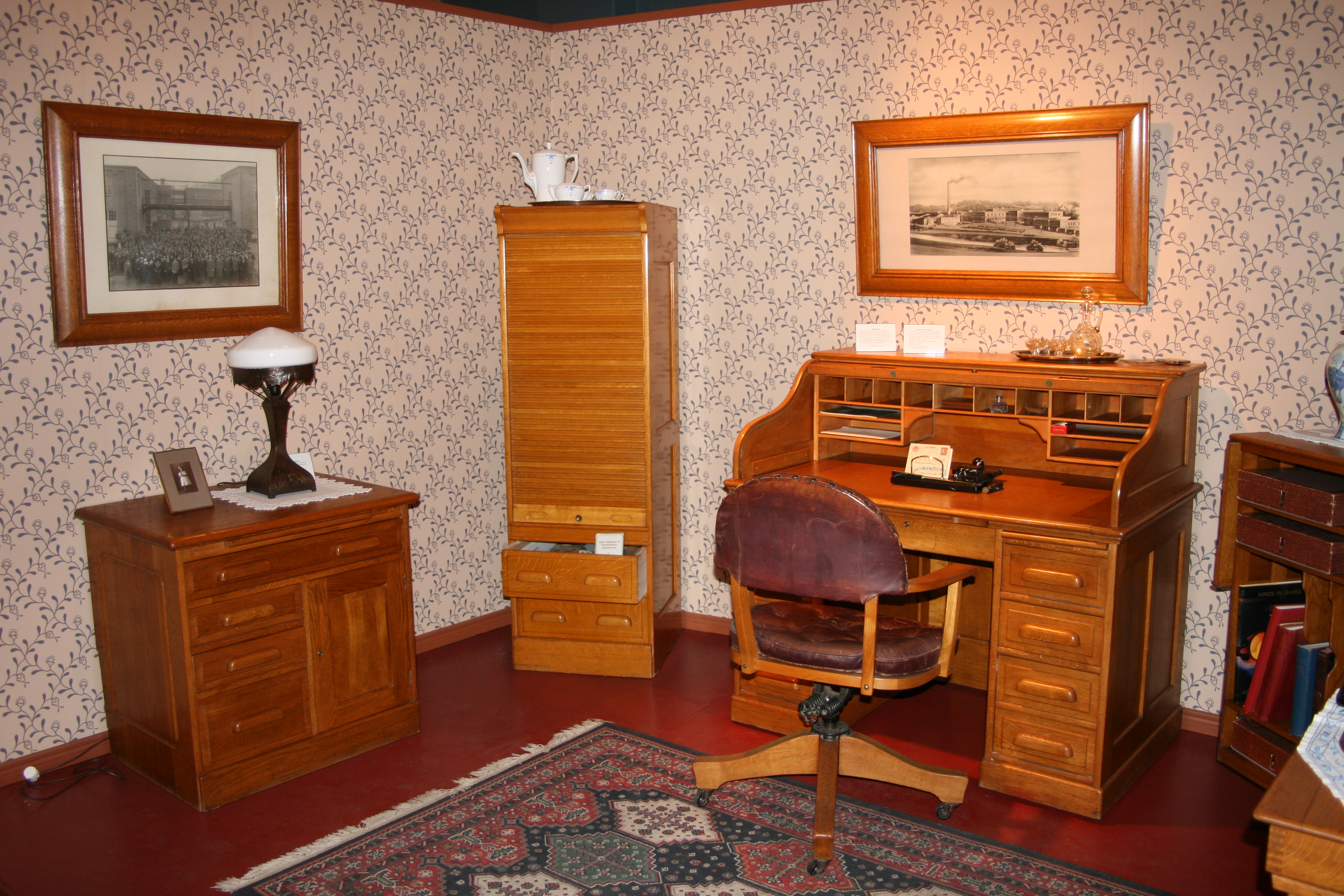 Office furniture manufactured by Åtvidabergs industrier (later renamed Facit), as displayed at Åtvidabergs bruks- och Facitmuseum in Åtvidaberg, Sweden.